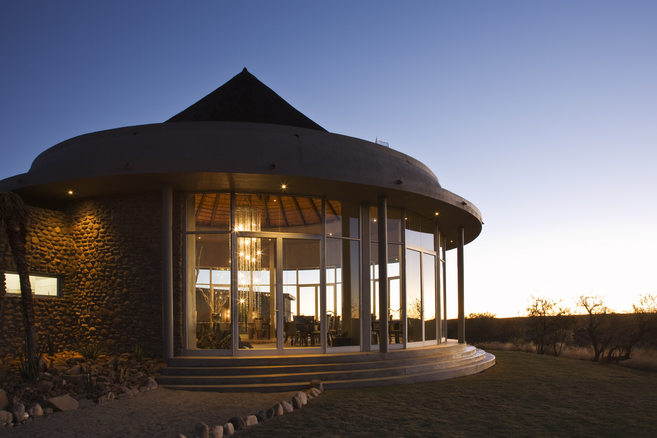 Naankuse Lodge, Namibia